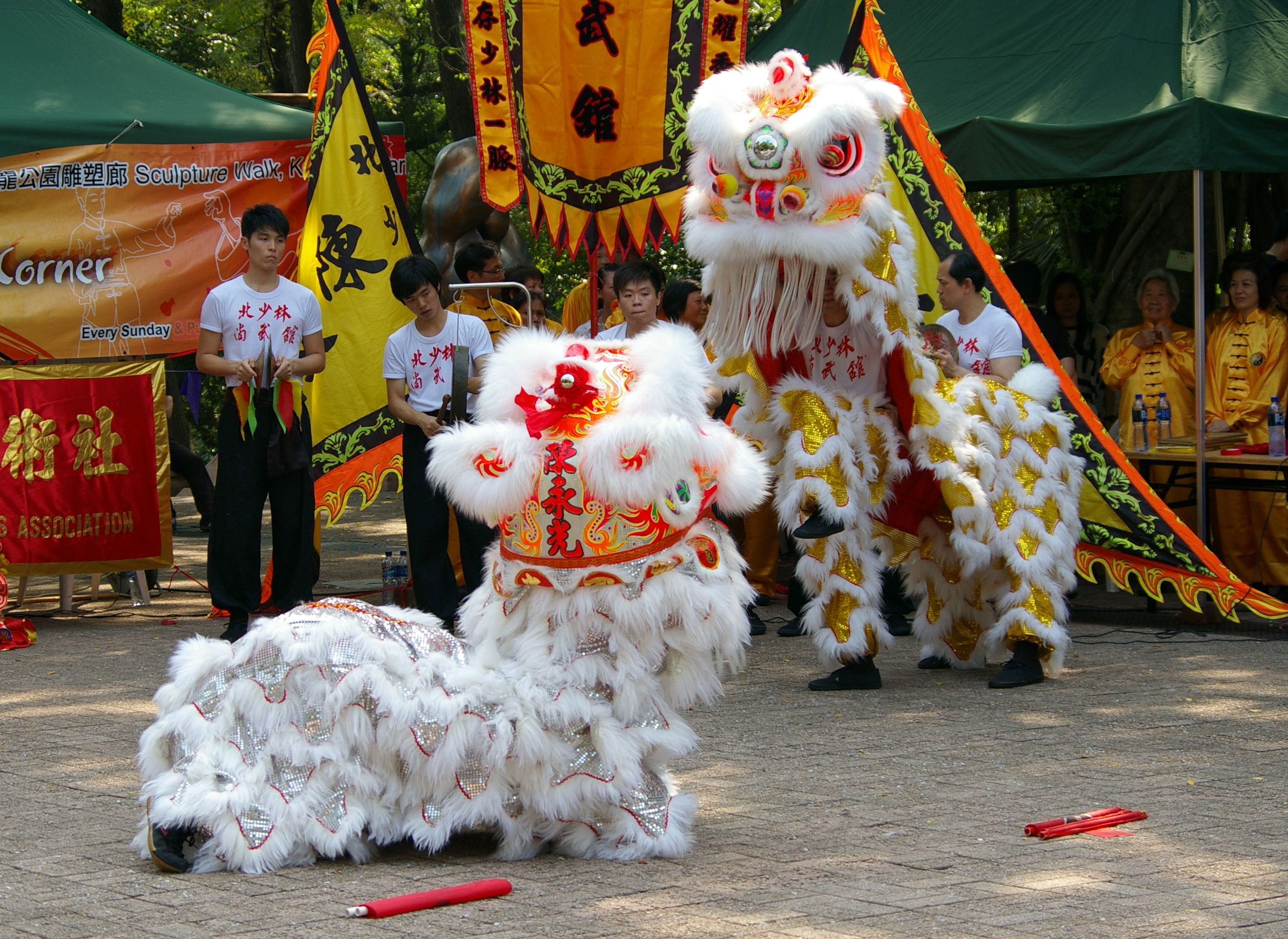 Lion dance on Kung Fu Corner in Kowloon Park, Hong Kong